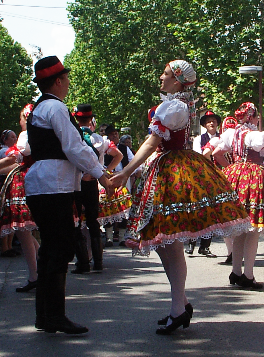 Voivodina Hungarians national costume and dance.